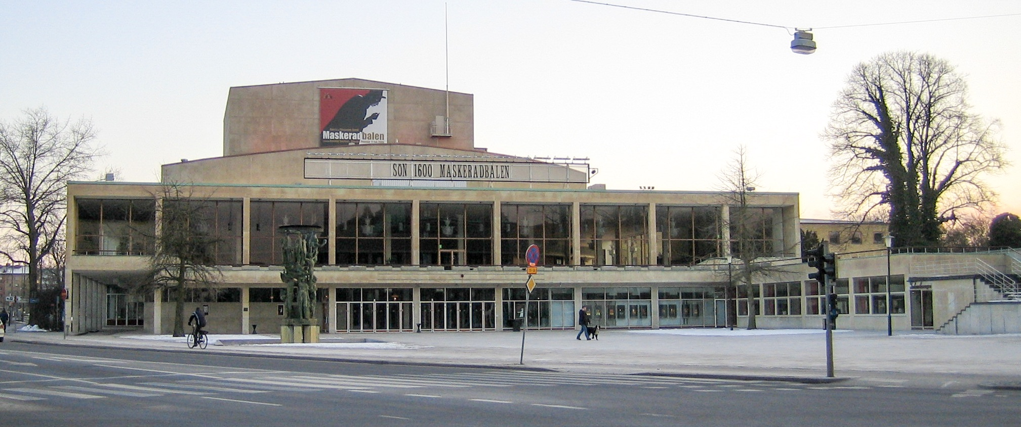 Malmö theatre.